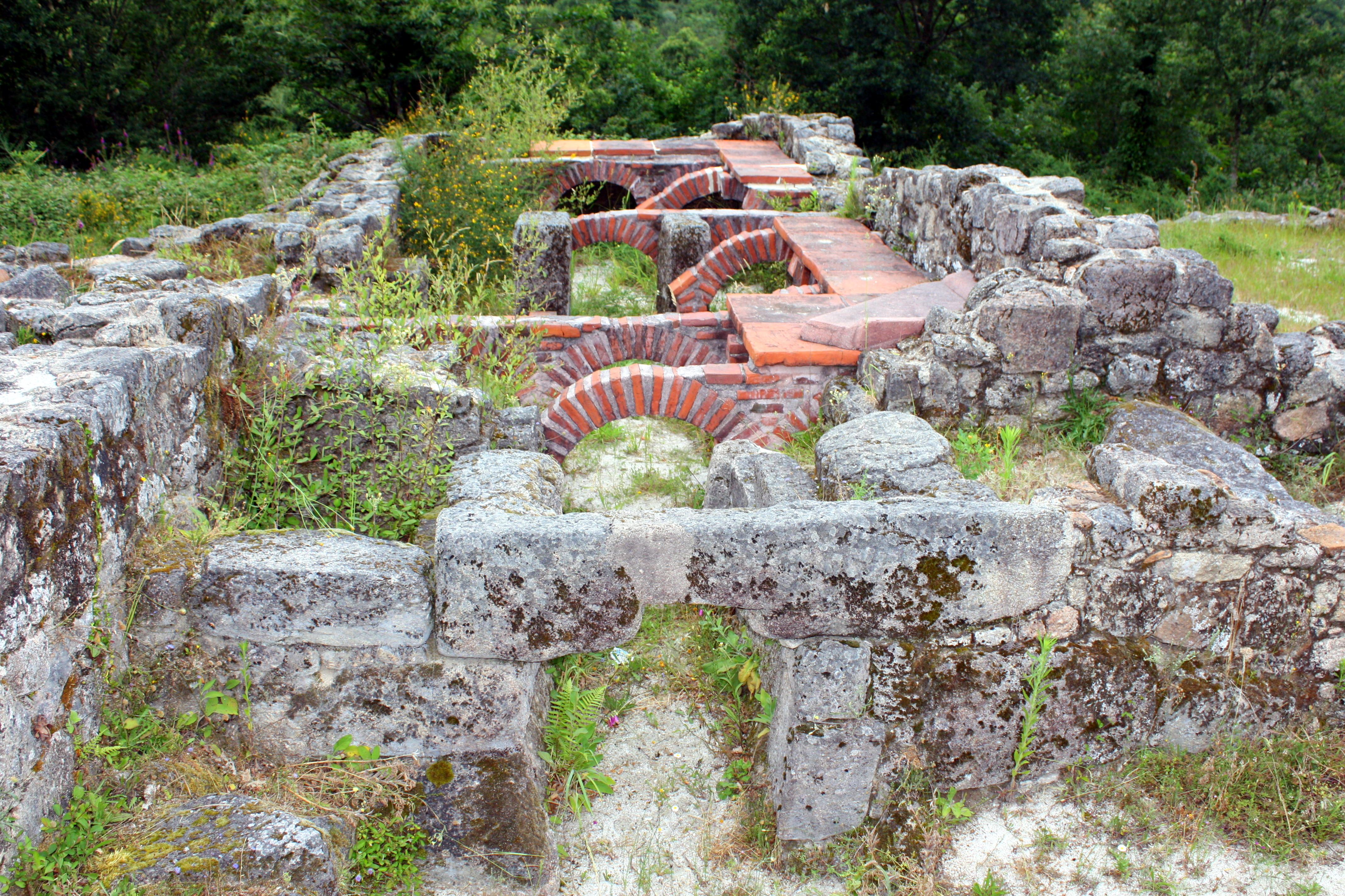 Ruins of and old Roman hostel with thermae in Lobios, Galicia (Spain).